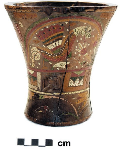 An ancient andean drinking vessel